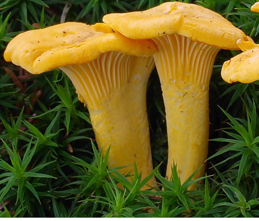 fungi